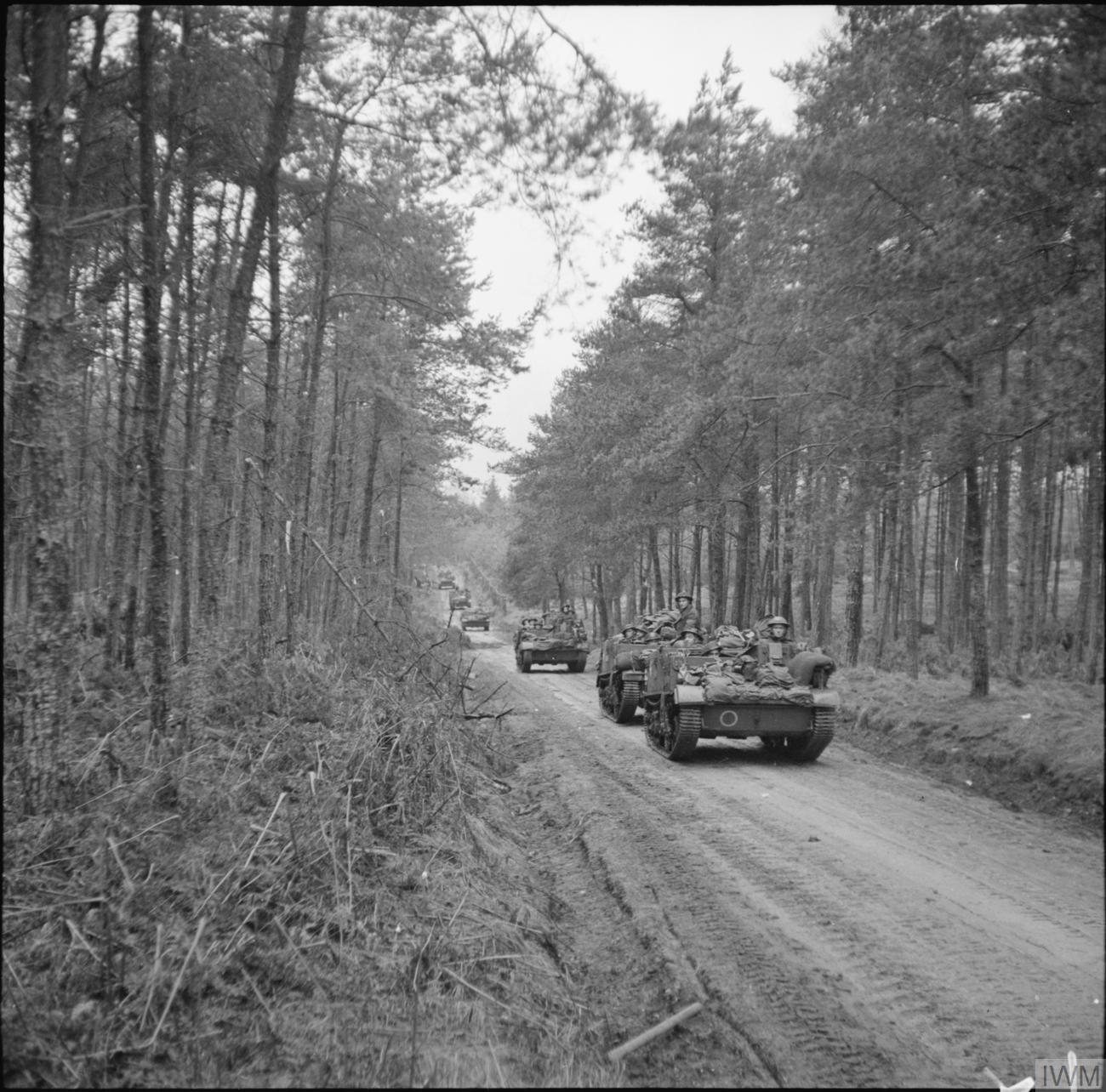 The British Army in North-west Europe 1944-45 Universal carriers of the 2nd Seaforth Highlanders in the Reichswald forest, 10 February 1945.